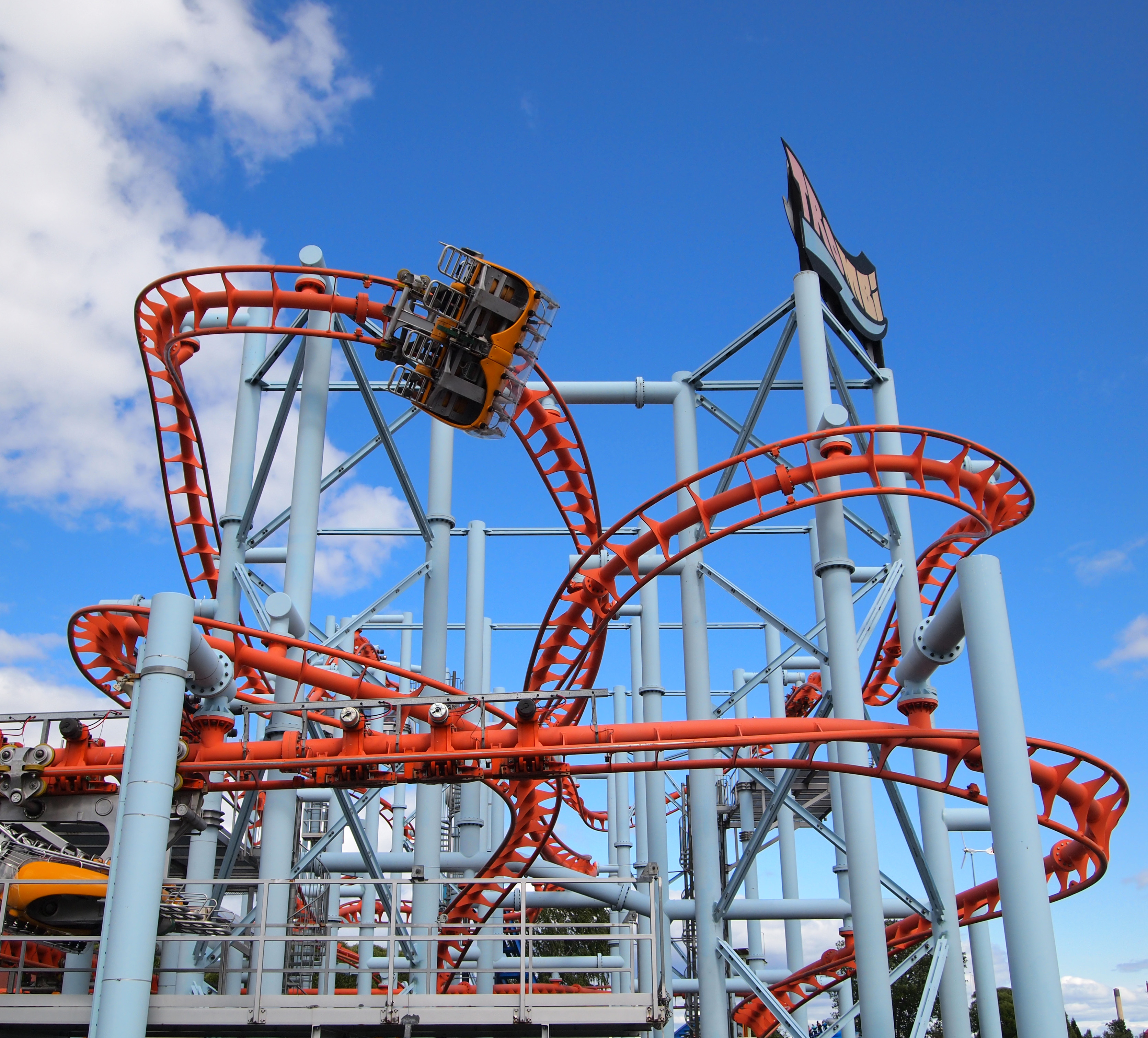 Amusement ride Trombi in Särkänniemi, Tampere. This photograph was taken with an Olympus E-PL1